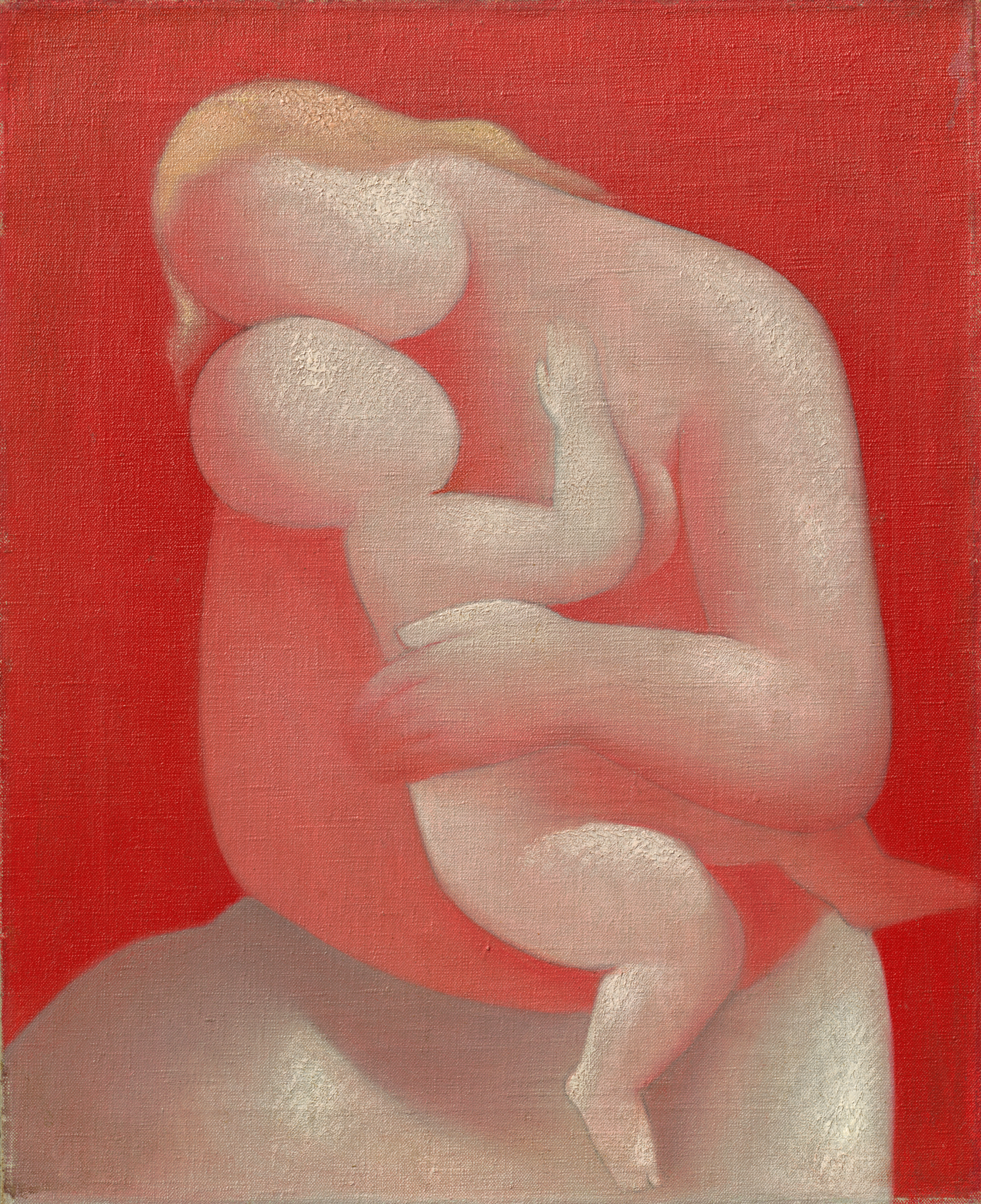 Mikuláš Galanda (Slovak painter) - mother